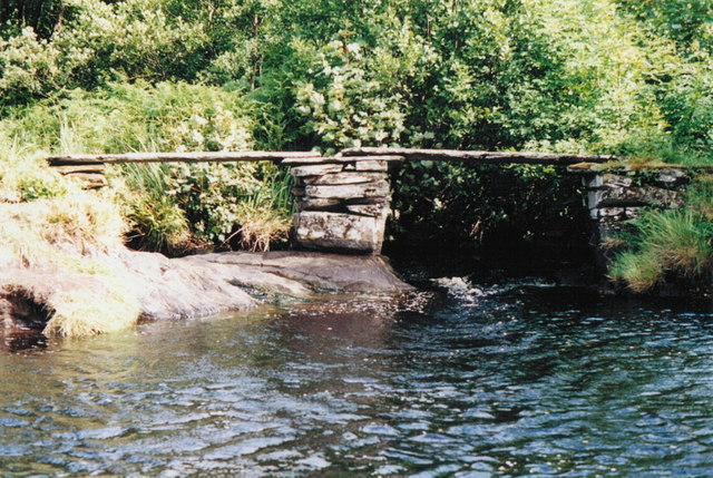 A clapper bridge